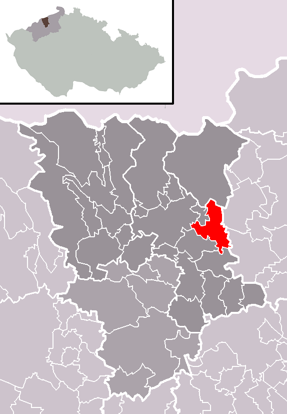 Location of Modlany municipality within Teplice District and administrative area of Teplice as a Municipality with Extended Competence.